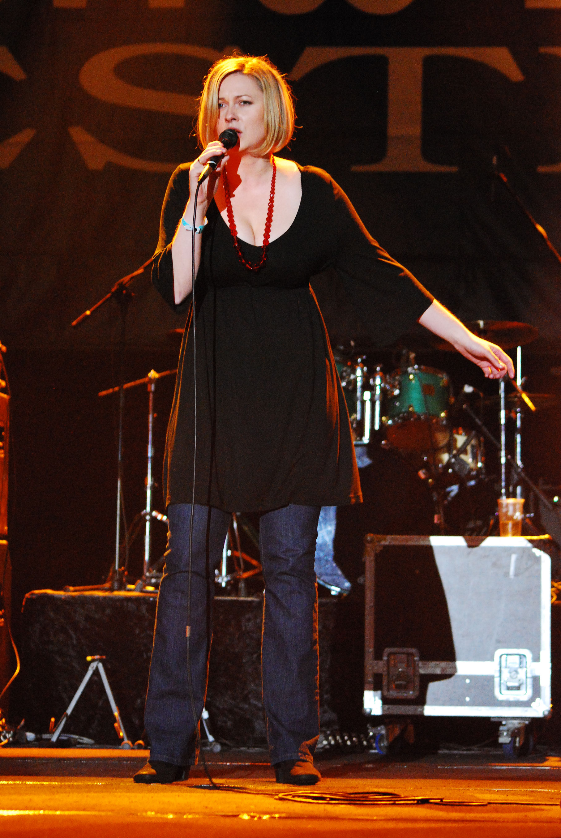 Ida Zalewska from Terraplane during 27. edycji Rawy Blues Festival